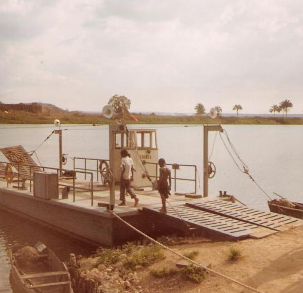 River Cuanza in Kissama National Park.